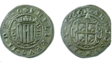 Ocho reales de Felipe II de Castilla y Felipe I de Aragón. Anverso: Señal Real de Aragón, leyenda: PHILIPPUS II DEI G. Derecha del Señal del rey de Aragón: C A (Ceca de Zaragoza; CA = Çaragoça); Izquierda: VIII (Valor de 8 reales). Reverso: Cruz de Alcoraz, leyenda: ARAGONUM REX 1556